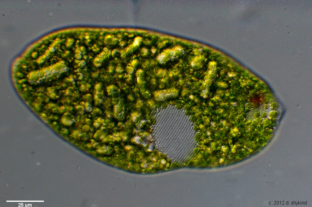 Pellicle of Euglena (picture by David Shykind).